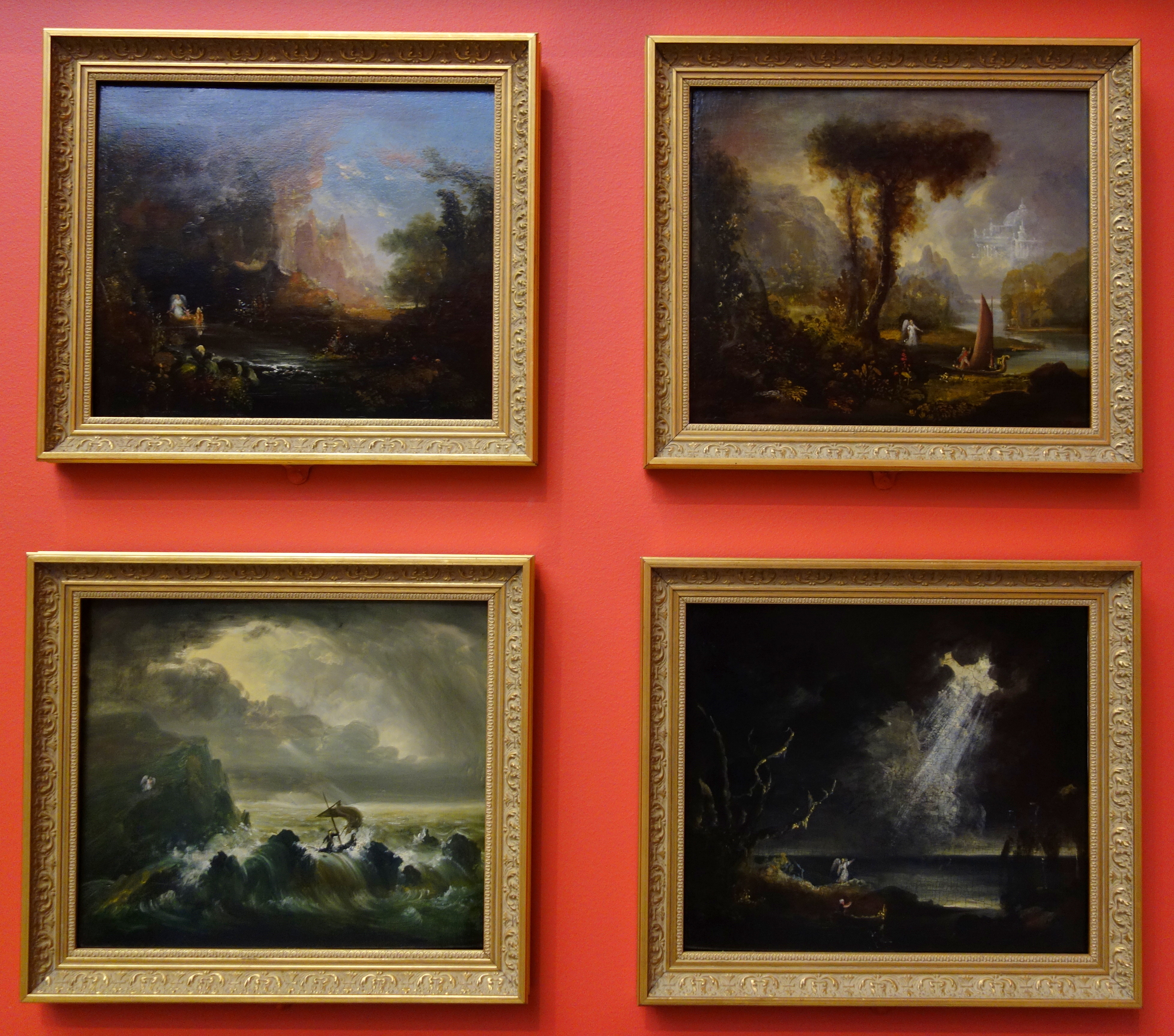 Exhibit in the Albany Institute of History and Art, Albany, New York, USA. This artwork is in the public domain because the artist died more than 70 years ago.